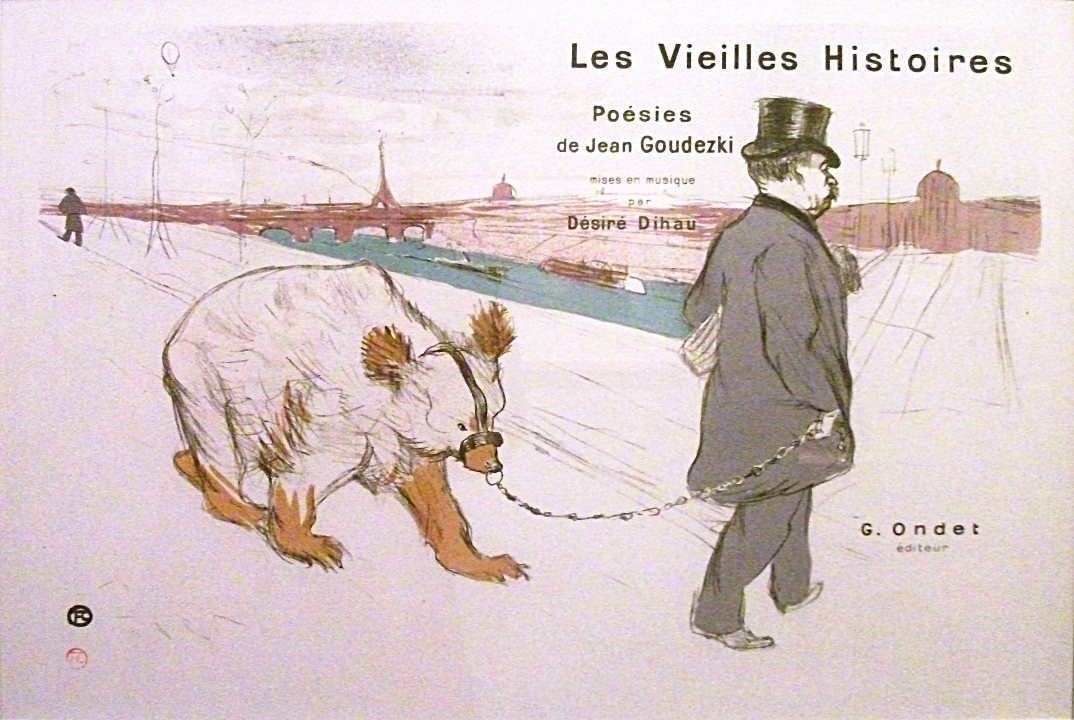 Les Vieilles Histoires by Henri de Toulouse-Lautrec. 1893 color crayon and spatter lithograph. Cover to song collection by poet Jean Goudezki and composer Désiré Dihau (portrayed as the top hatted figure with the bear representing the poet). On display in Bedford Museum's "High Kicks and Low Life" exhibition.